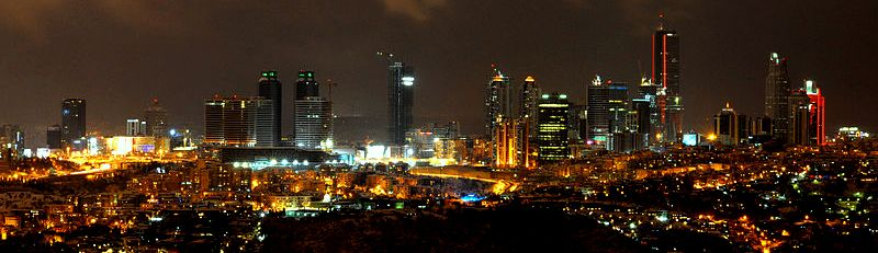 cropped version of the picture